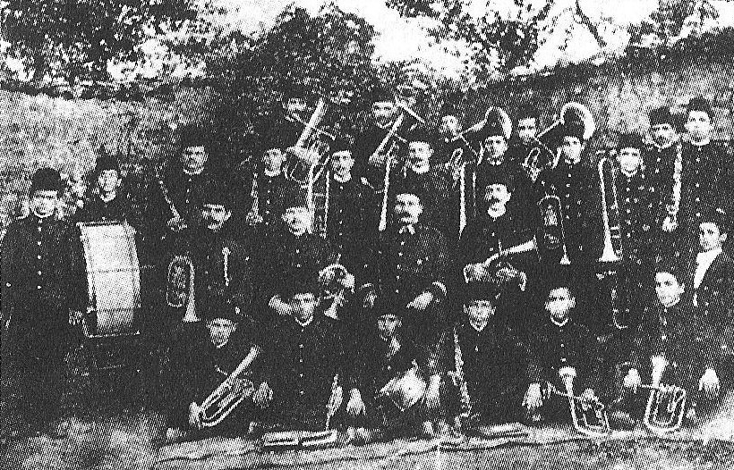 Photo of the Band of Freedom, a musical group of the Albanian National Awakening that was active in the city of Korçë, 1909